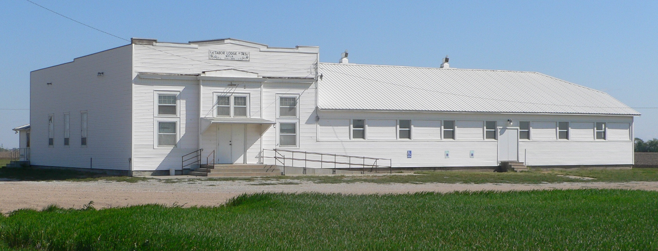 Tabor Hall, located at 1402 I Rd, south of Dorchester in rural Saline County, Nebraska; seen from the southwest.